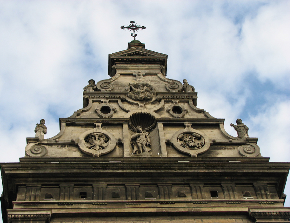 Bernardine church and monastery in Lviv